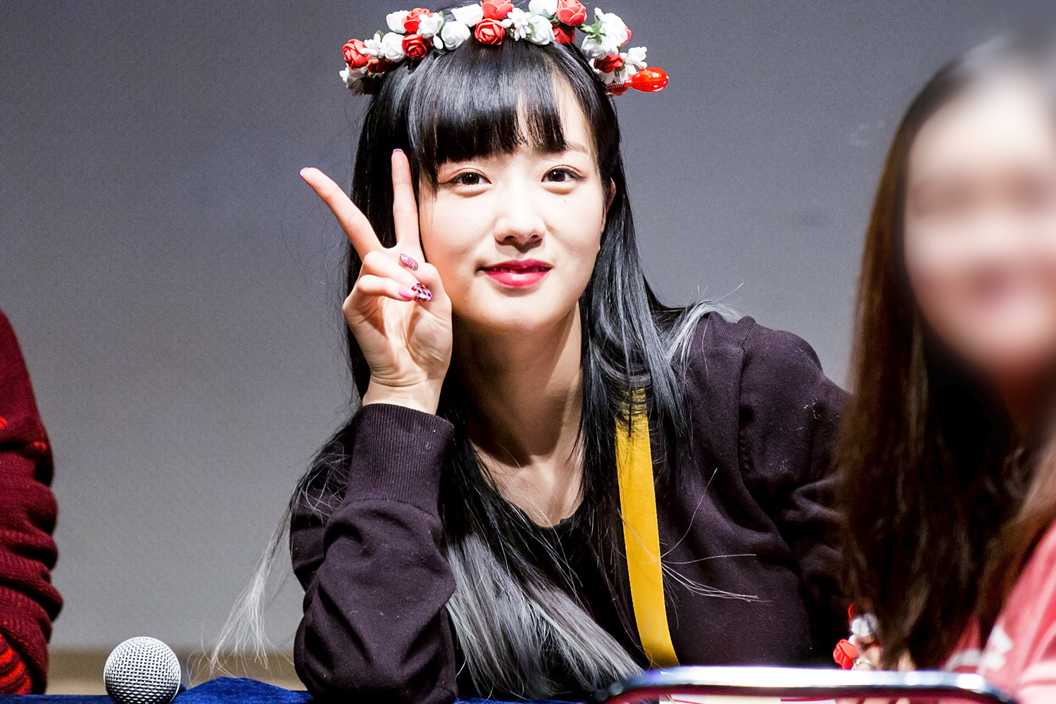 Yoon Bo-mi at an Apink fan meeting in Sinchon.